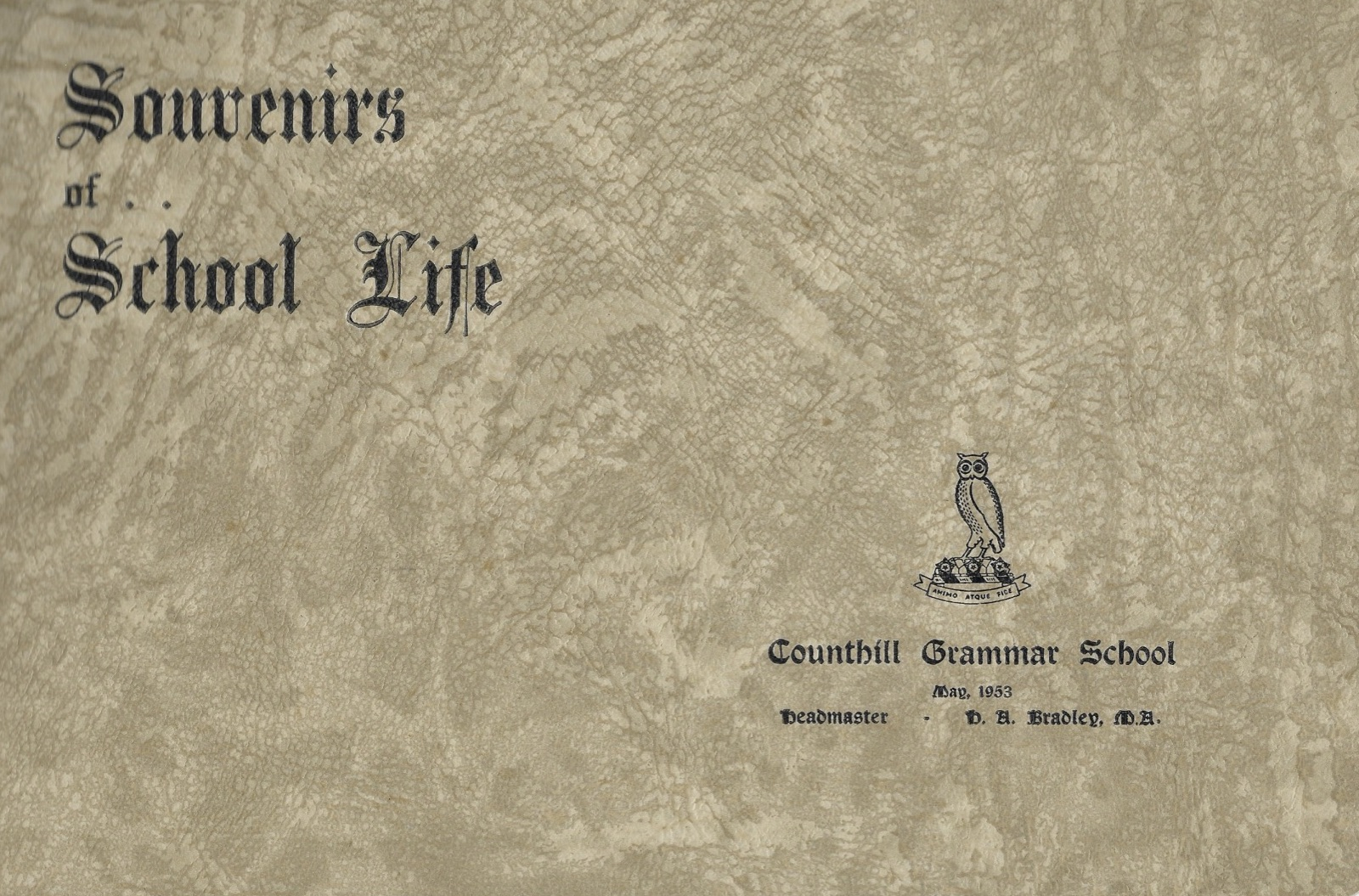 Scan of Class of 1953 photo cover